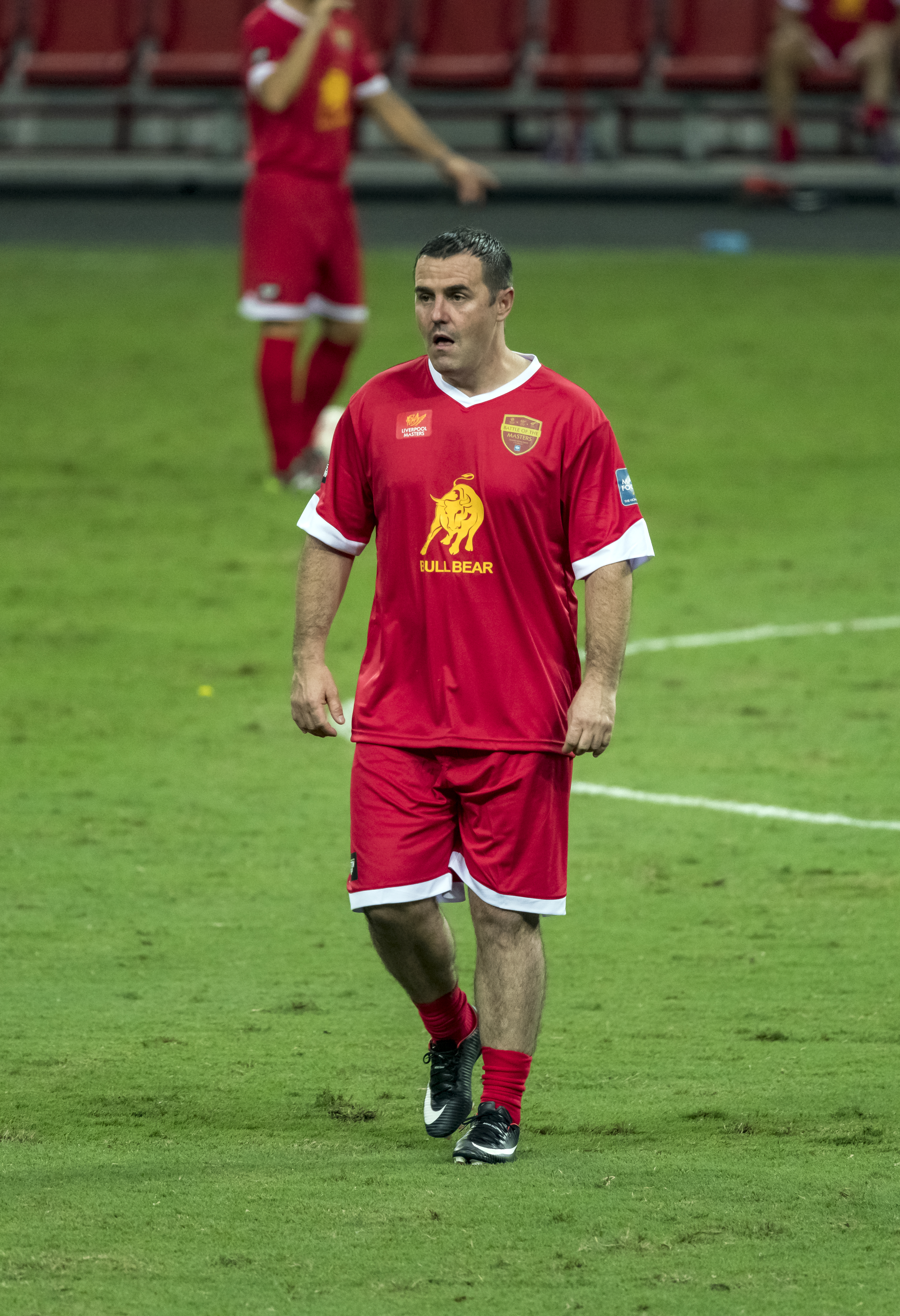 david thompson liverpool masters national stadium 2017